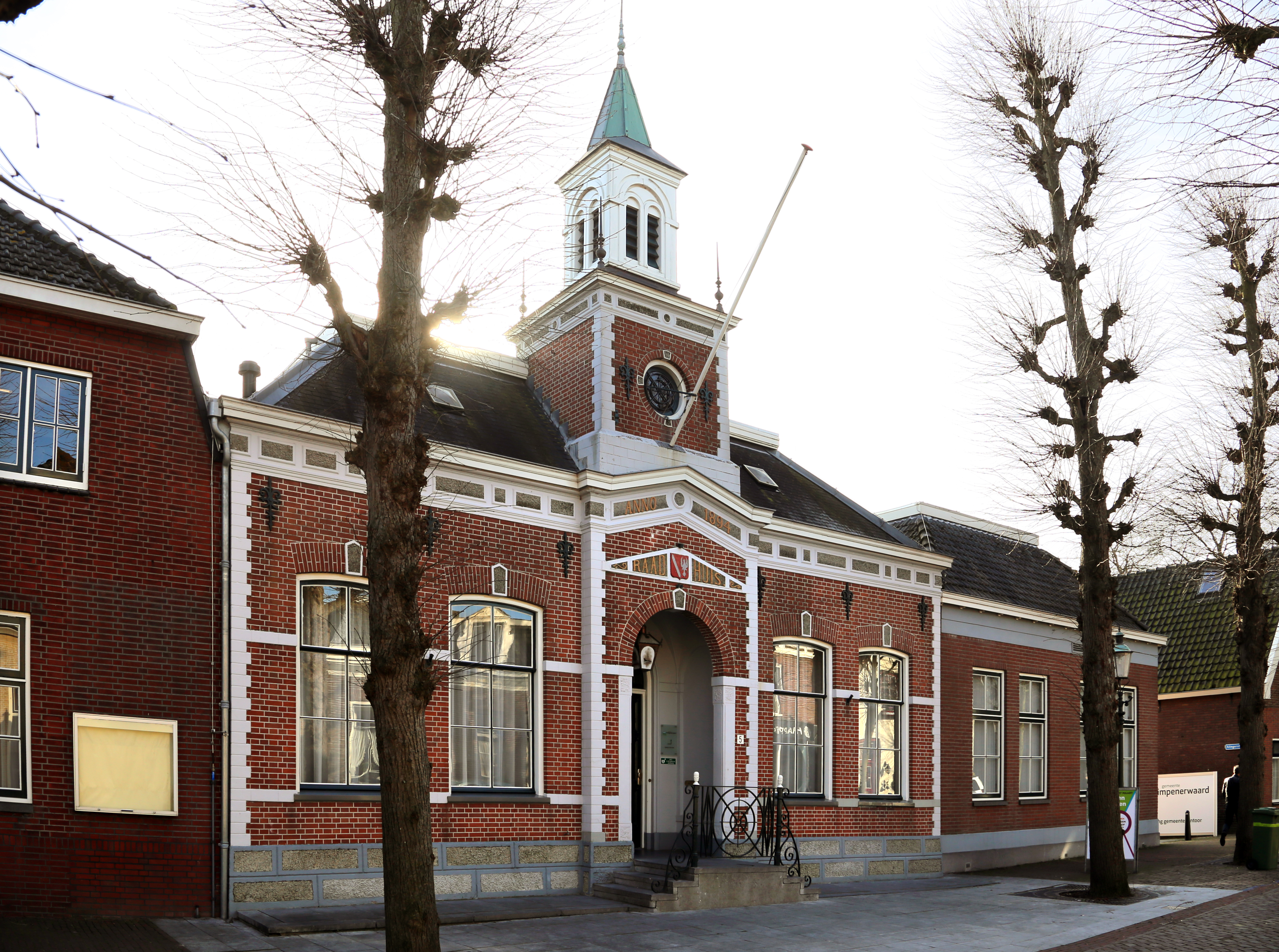 Buildings in Bergambacht